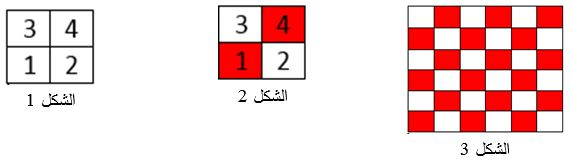 The simplest weave ever